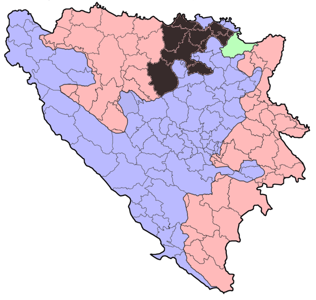 Municipalities in Bosnia and Herzegovina, Doboj region (RS) highlighted